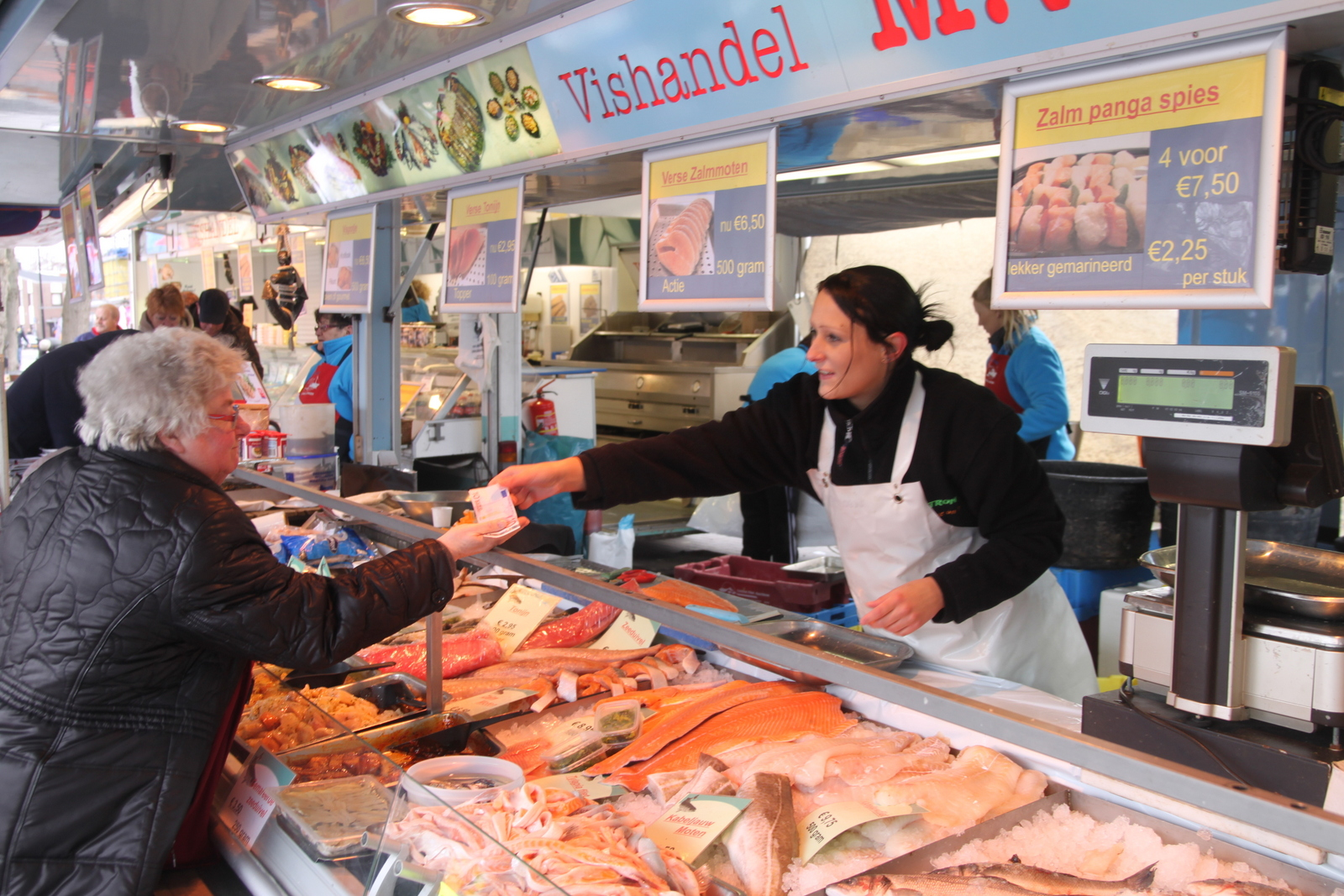 Market woman on the market selling fish in Holland